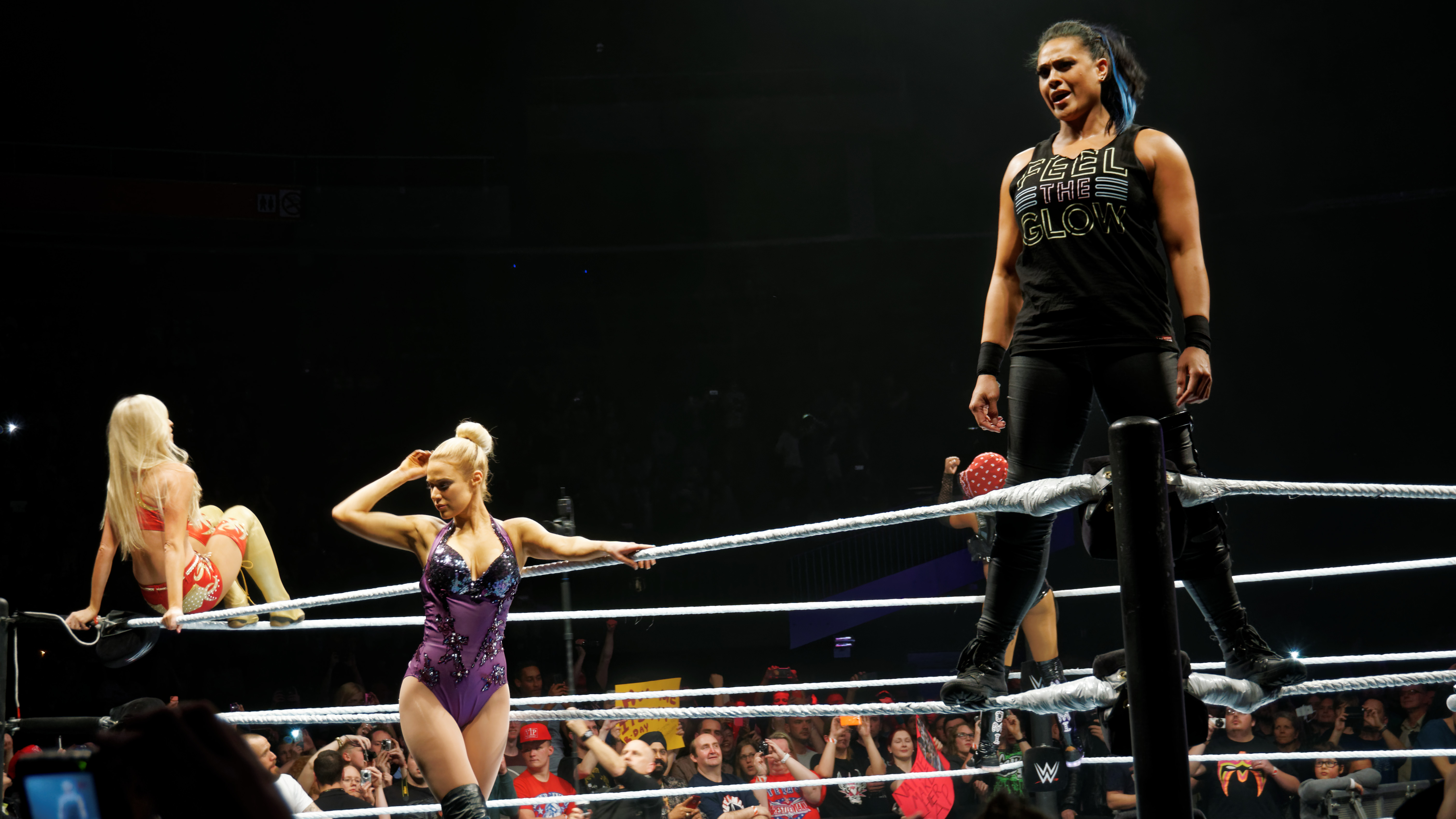 WWE Live WrestleMania Revenge Alicia Fox & Eva Marie & Natalya & Paige def. Lana & Summer Rae & Naomi & Tamina